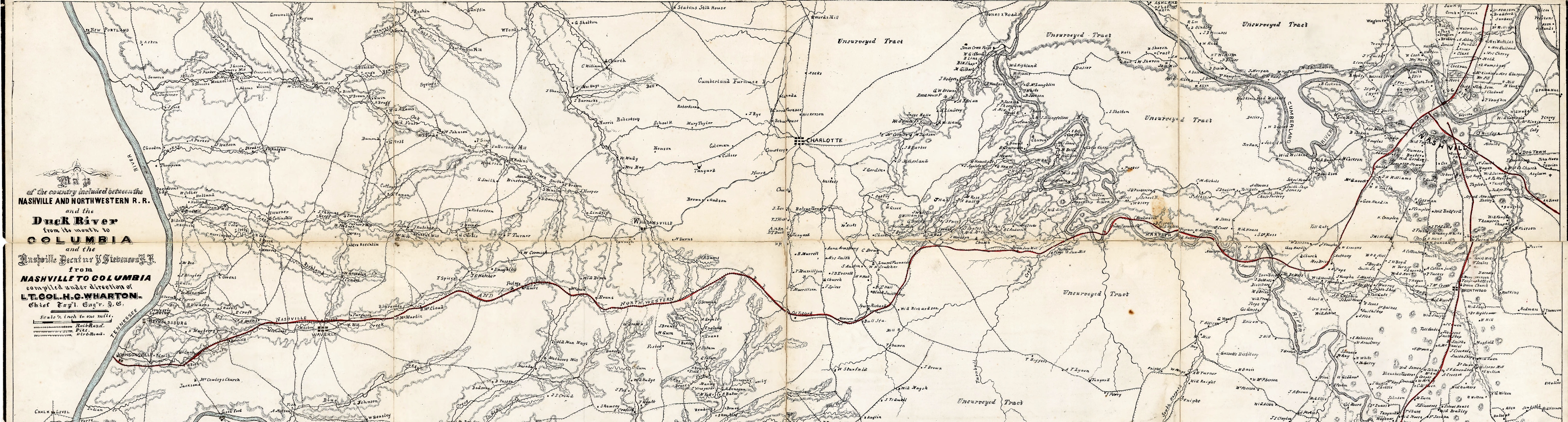 Civil War map of the country traversed by the Nashville and Northwestern Railroad and the Nashville, Decatur and Stevenson Railroad Operational map drawn by Union topographical engineer Lt. Col. H. C. Wharton showing landowner's names, detailed road system, topography, mills, with notes as to land and road quality. Map covers a portion of Middle Tennessee west of Nashville covered by the Nashville and Northwestern Railroad, and south of Nashville following the Nashville, Decatur and Stevenson Railroad and the Duck River from Columbia to its mouth. Issued by command of Major General George H. Thomas. The map basically stretches from Nashville south to Columbia and west to the Tennessee River. The new Federal depot and supply installation at Johnsonville is shown. Scale is one half inch equals a mile. Color present along some railroad and water routes.